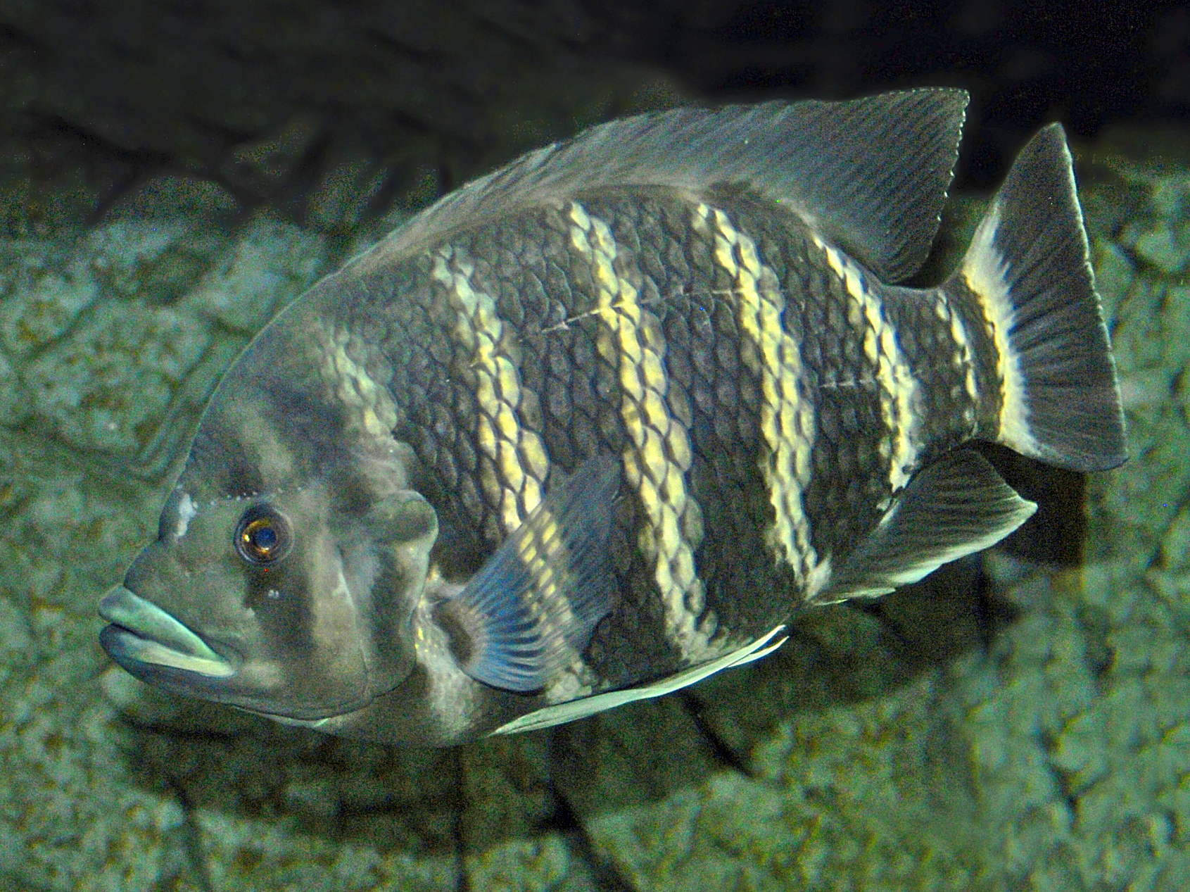 Heterotilapia buttikoferi, on display at the Museo di Storia Naturale e del Territorio, Calci (Province Pisa), Italy